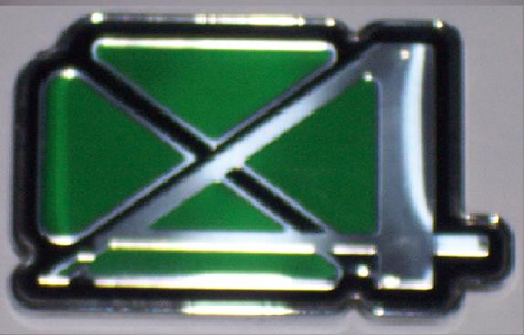 Logo posteriore versioni Q4